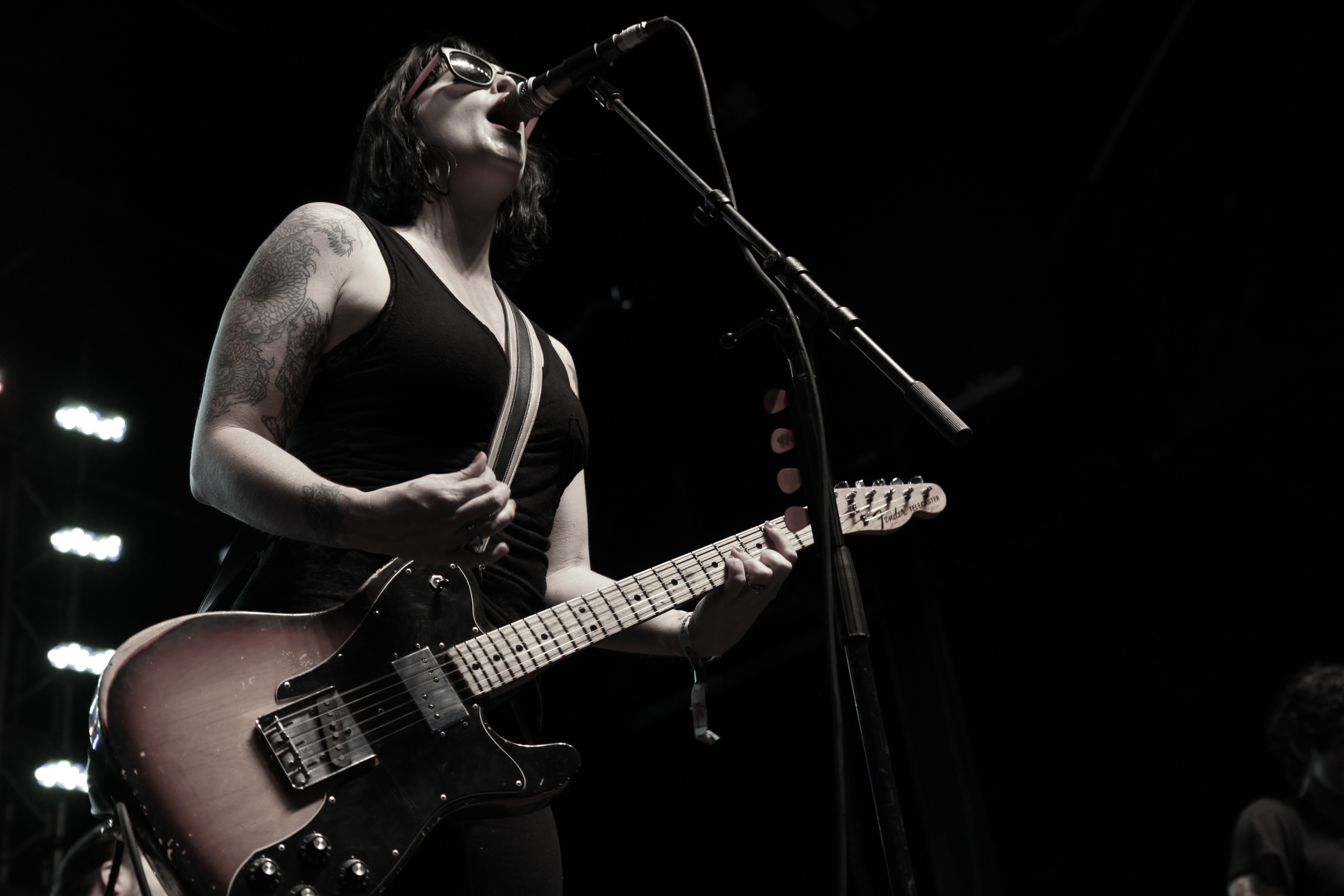 Brody Dalle playing with Spinnerette at the 2009 Deer Lake Virgin Festival.